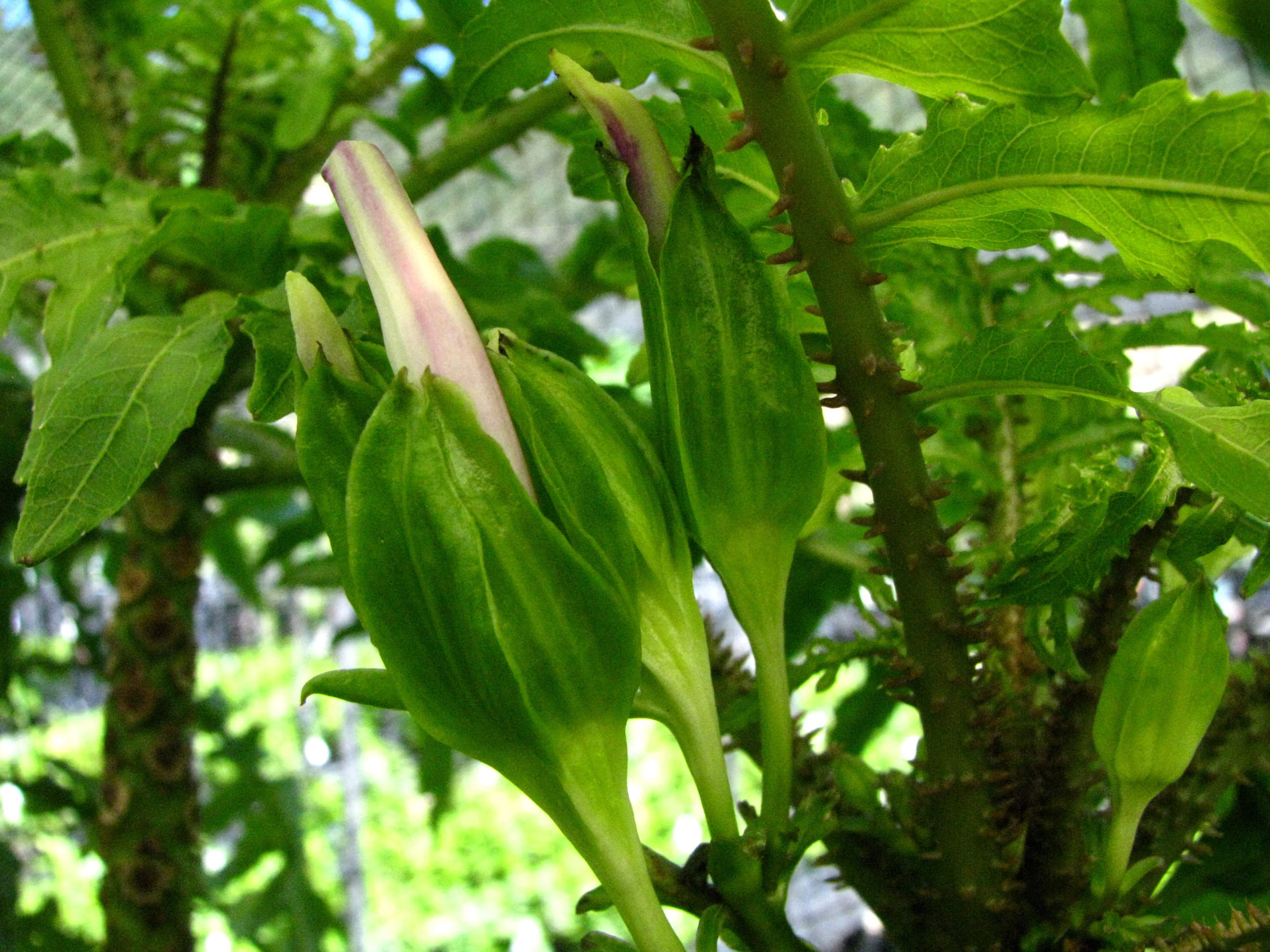 Hāhā Campanulaceae Endemic to the Hawaiian Islands (West Maui only) Very rare and endangered Kauaʻi (Cultivated) It's easy to see how this species got the name "magnicalyx" (large calyx)!